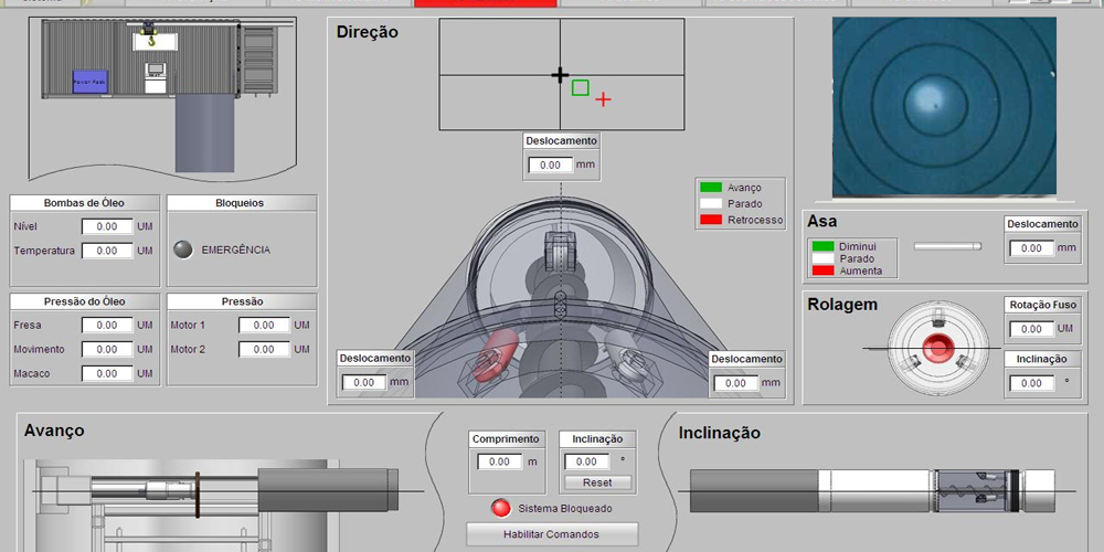 Slurry Pipe Jacking Micro Tunneling